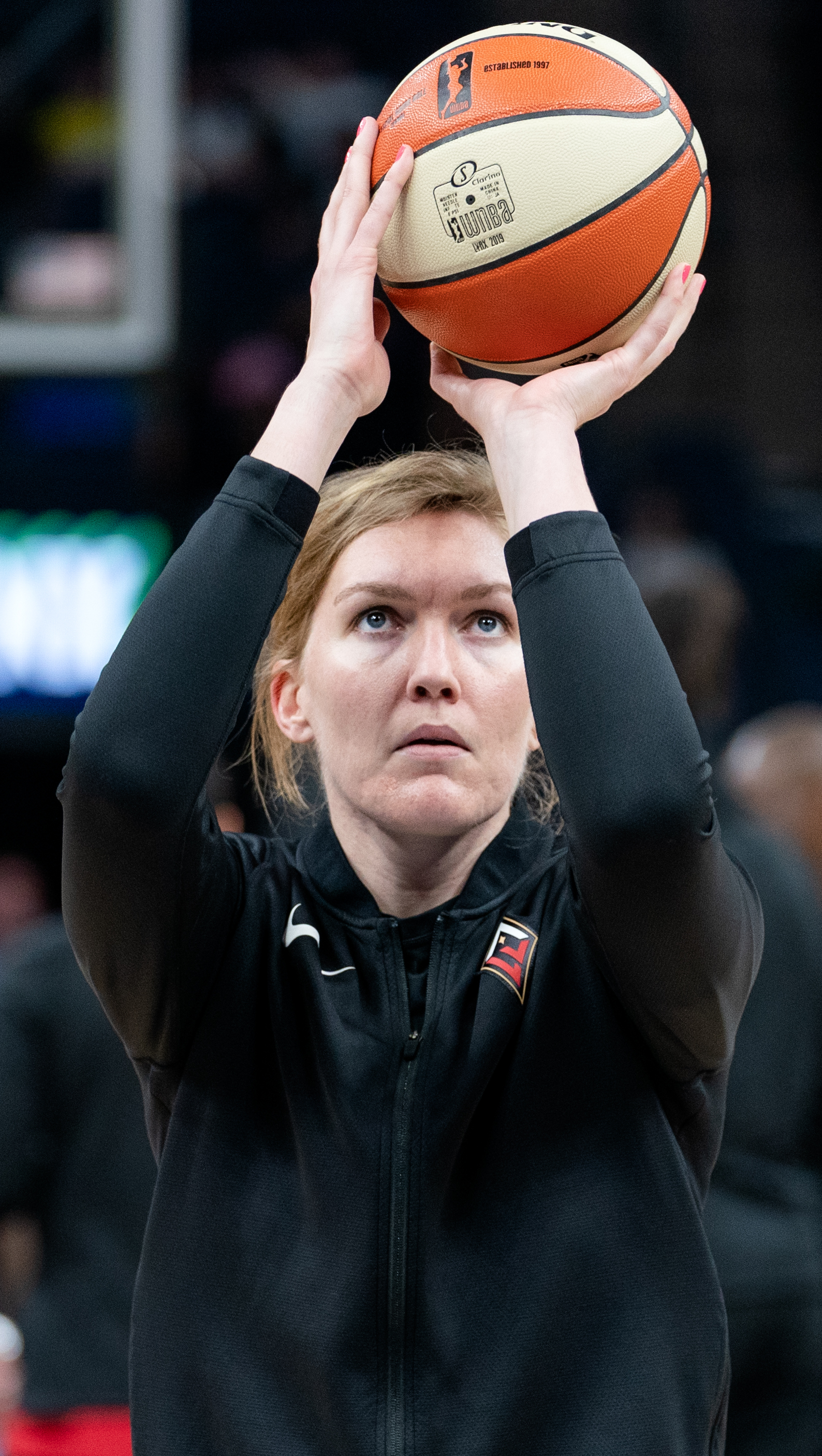 Las Vegas Aces player, Carolyn Swords shooting a ball during warmups